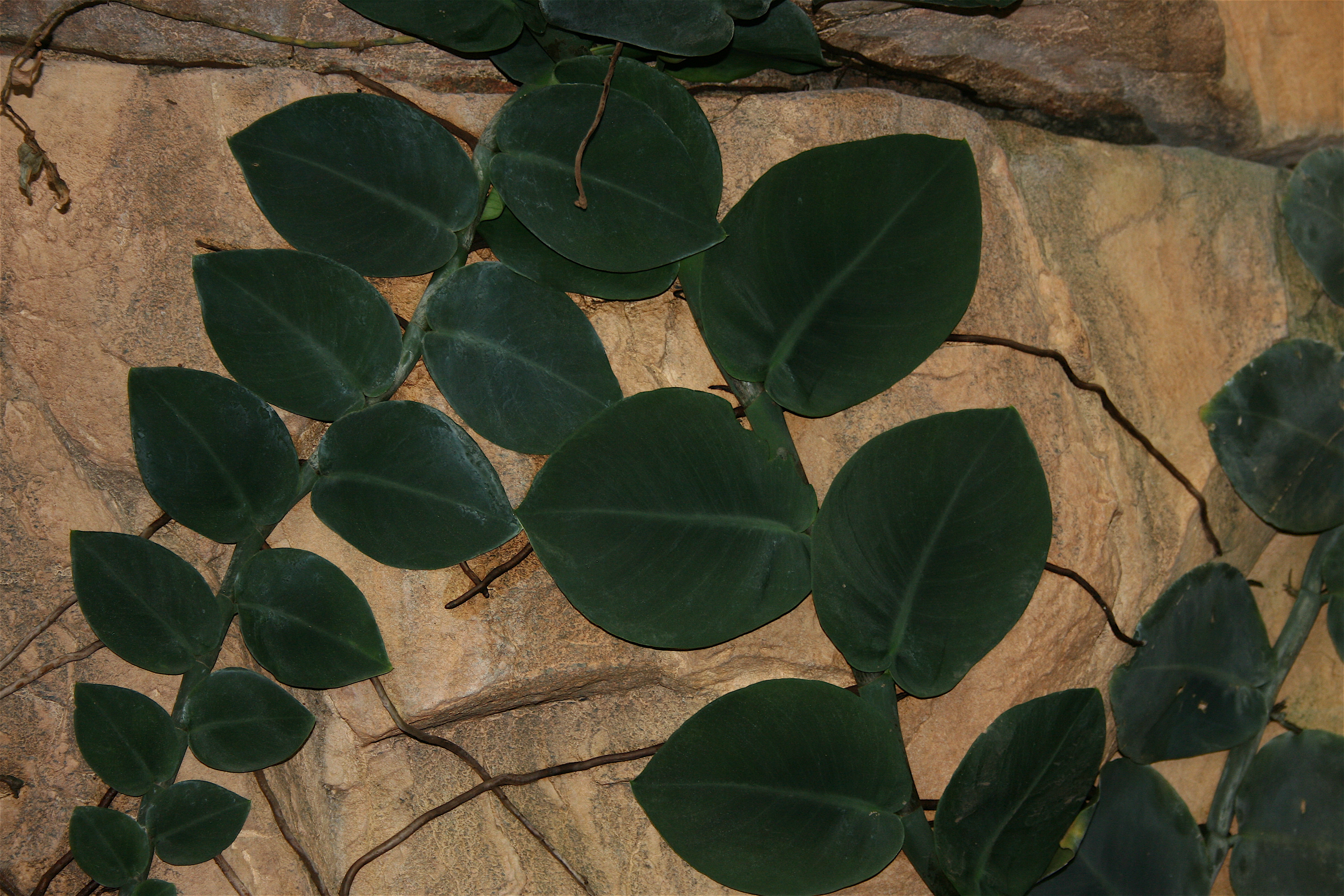 Shingle Plant (Rhaphidophora korthalsii, synonym Rhaphidophora celatocaulis ) at Frederik Meijer Gardens & Sculpture Park in Grand Rapids, MI.